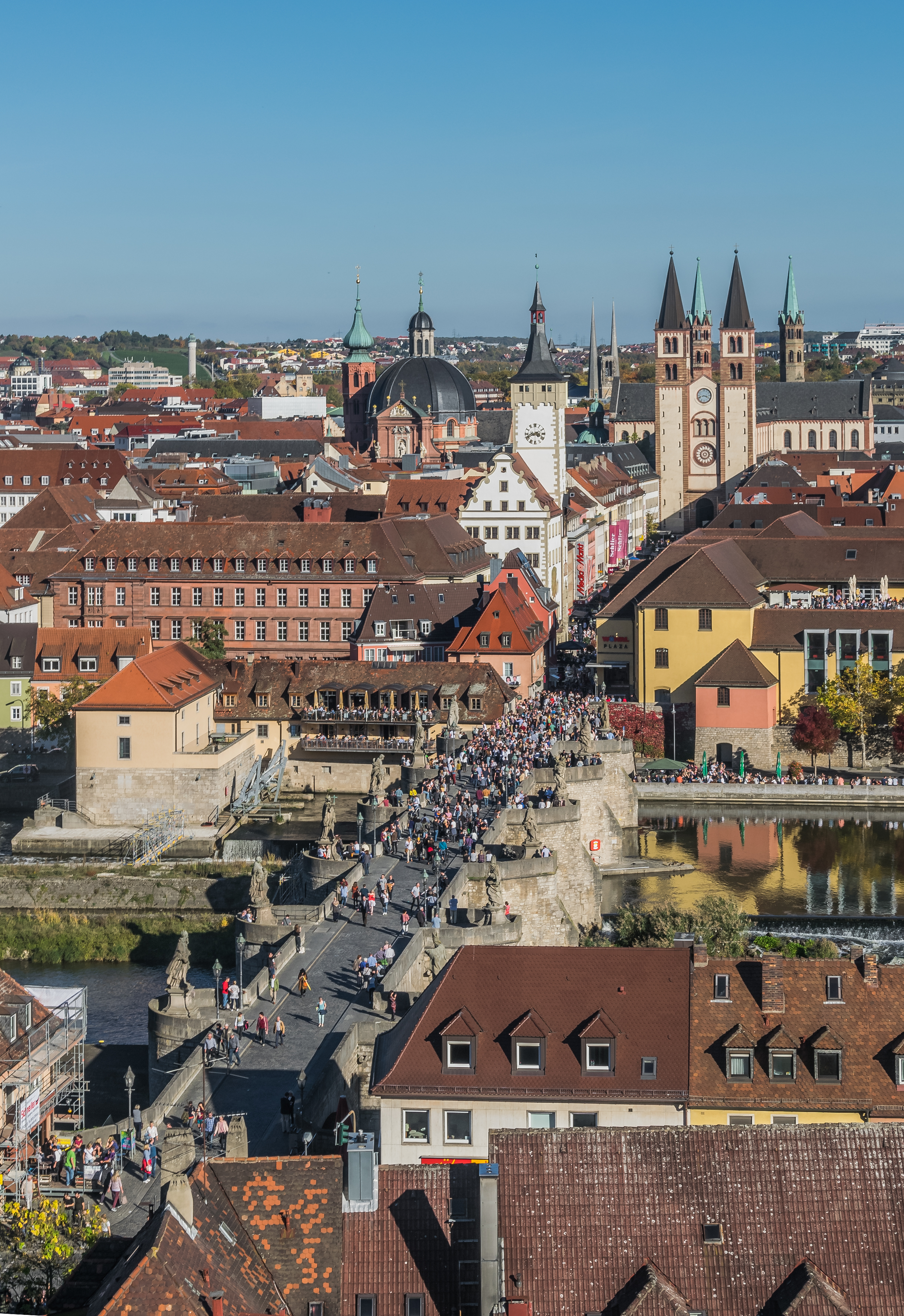 View of Alte Mainbrücke in Würzburg, Bavaria, Germany